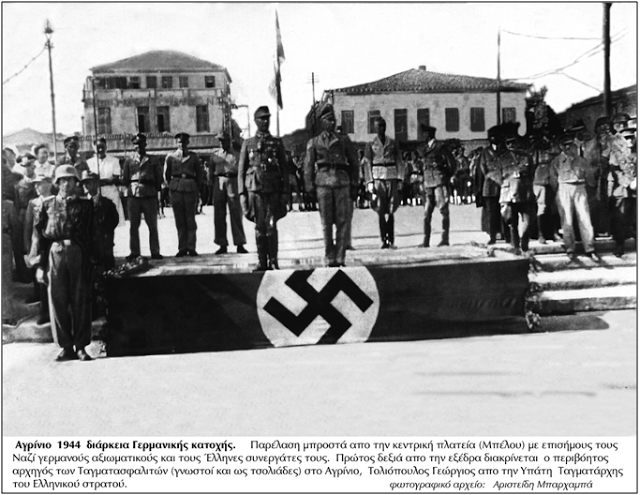 Nazis and collaborators, Agrinion, Greece, 1943